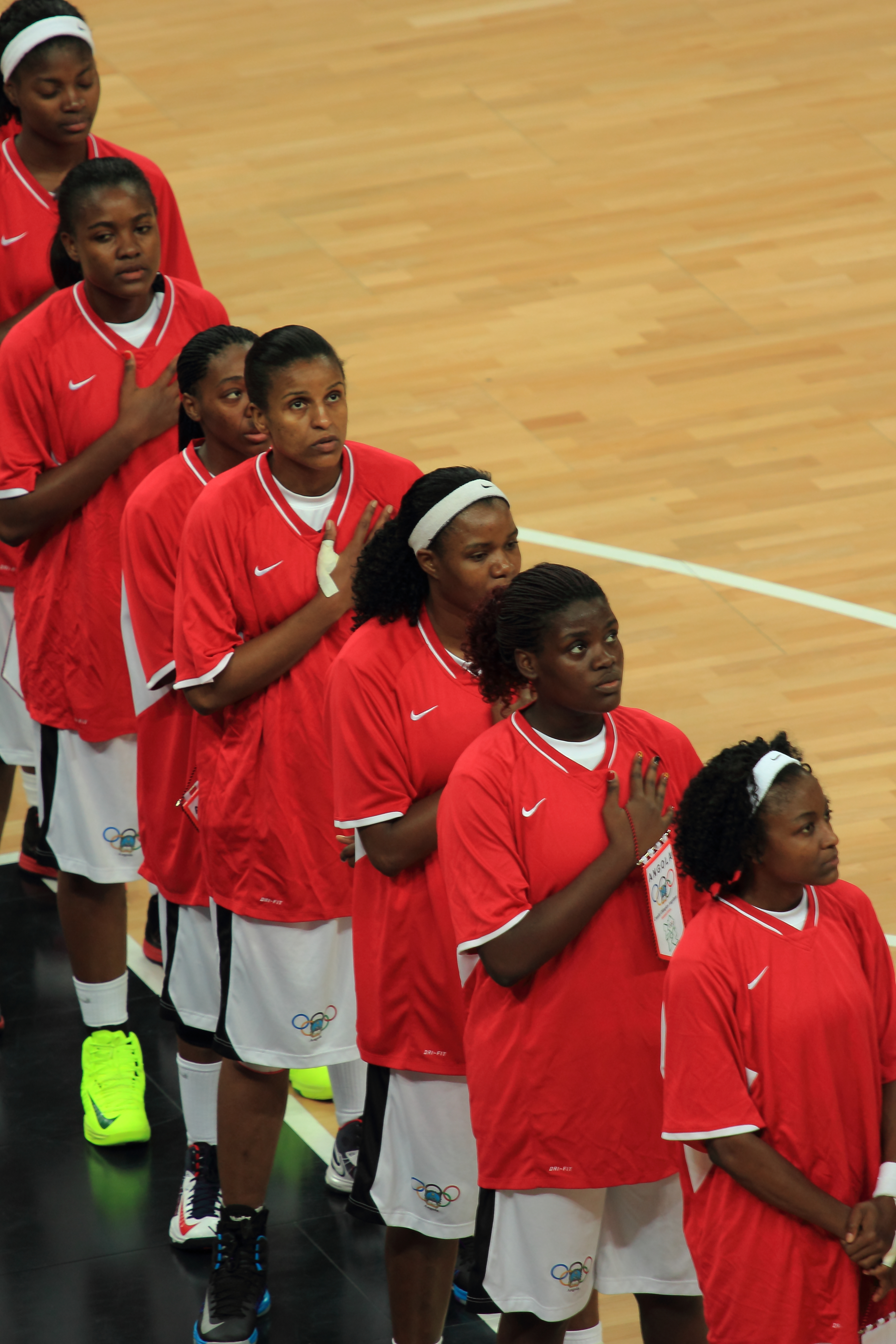 Angolan women's basketball team singing their national athem before the start of their match with Croatia in the London Olympics 2012 premilinary Group A table.